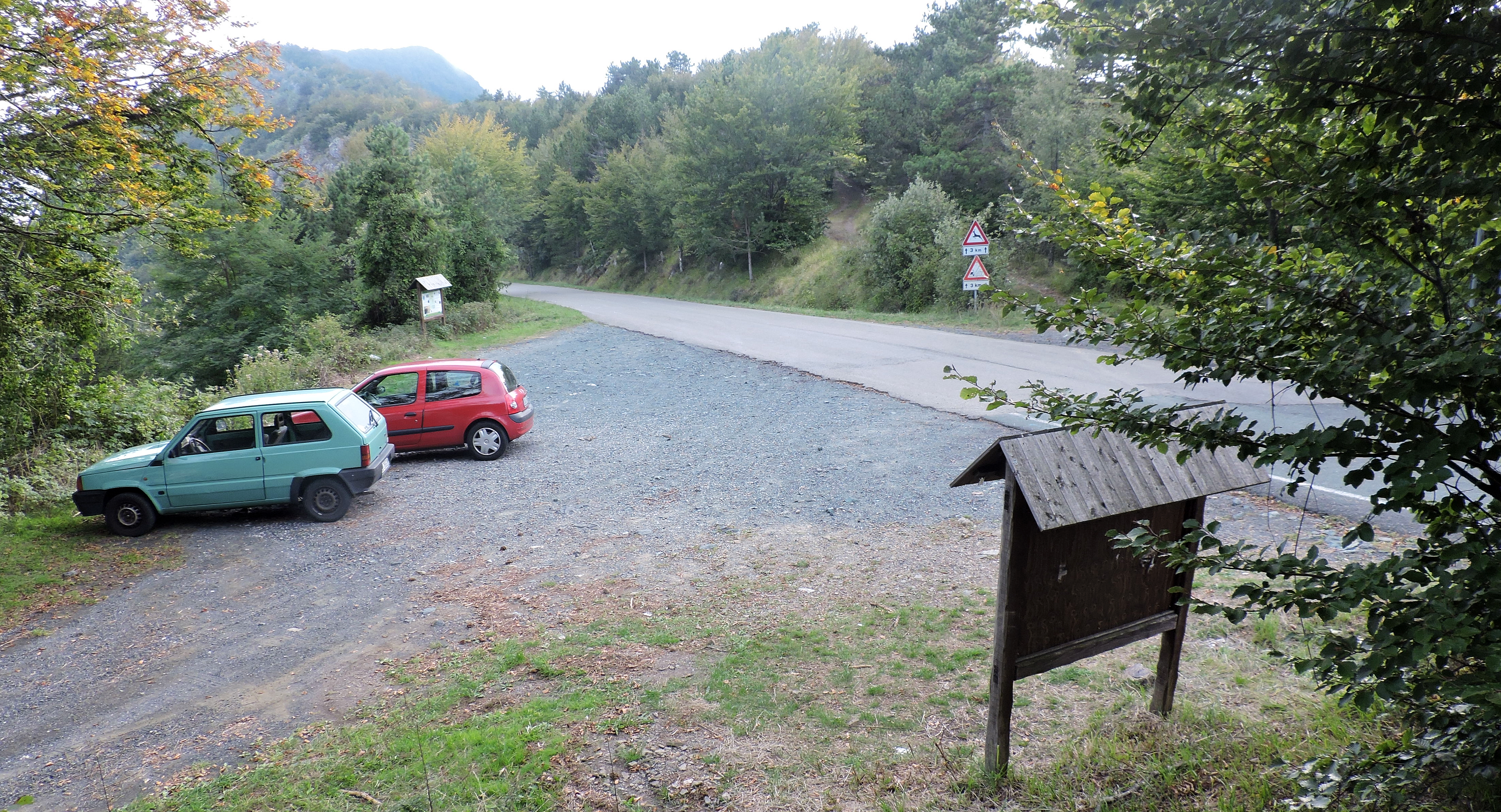 Pass dei Ghiffi (Ligurian Apennine, Italy)